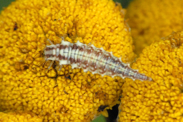 Picture taken in Commanster, Belgian High Ardennes . Species: Chrysoperla carnea larva